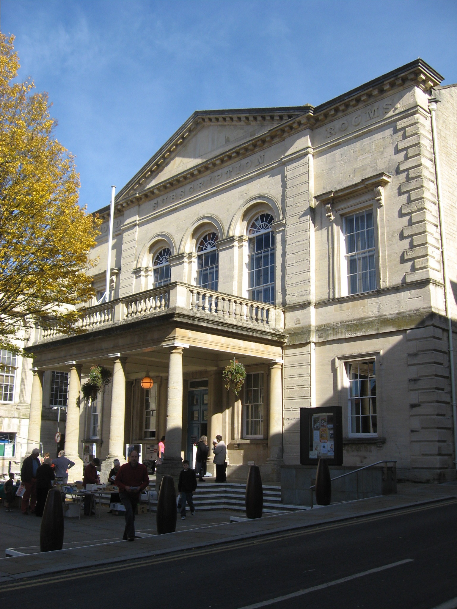 Subscription Rooms at Stroud, Gloucestershire, England.